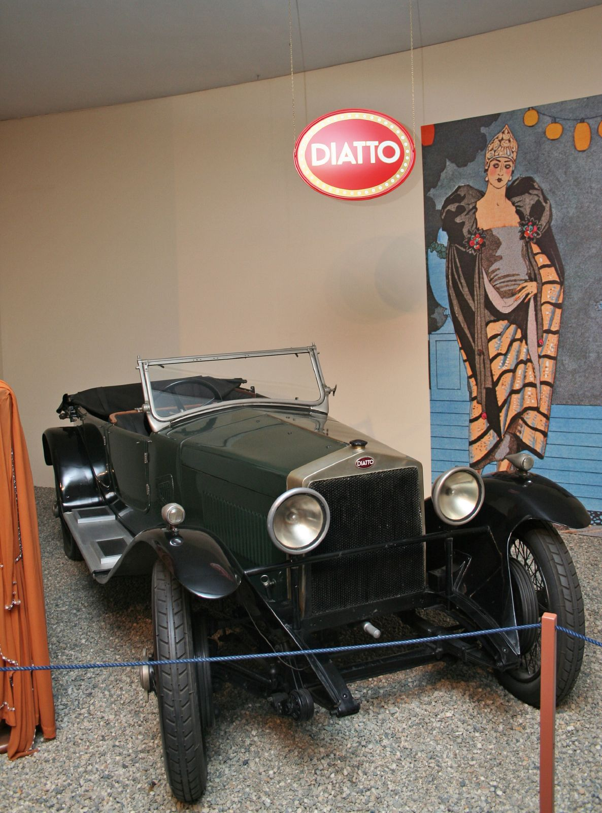 Diatto Type 30 1925 at MUSEO DELL'AUTOMOBILE Torino